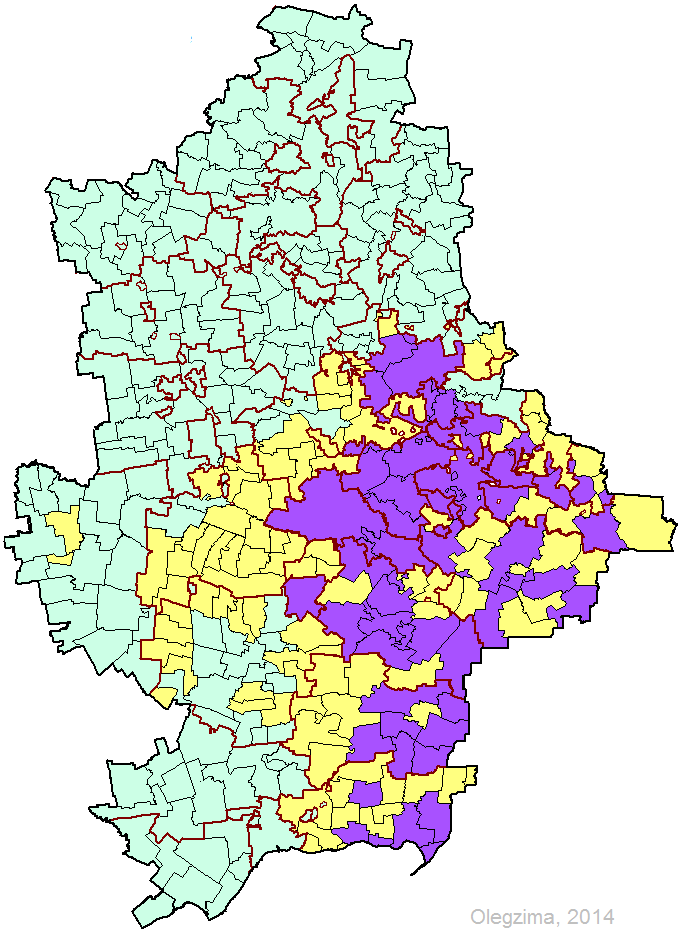 Areas in which elections were held in the autumn of 2014 in Donetsk Oblast